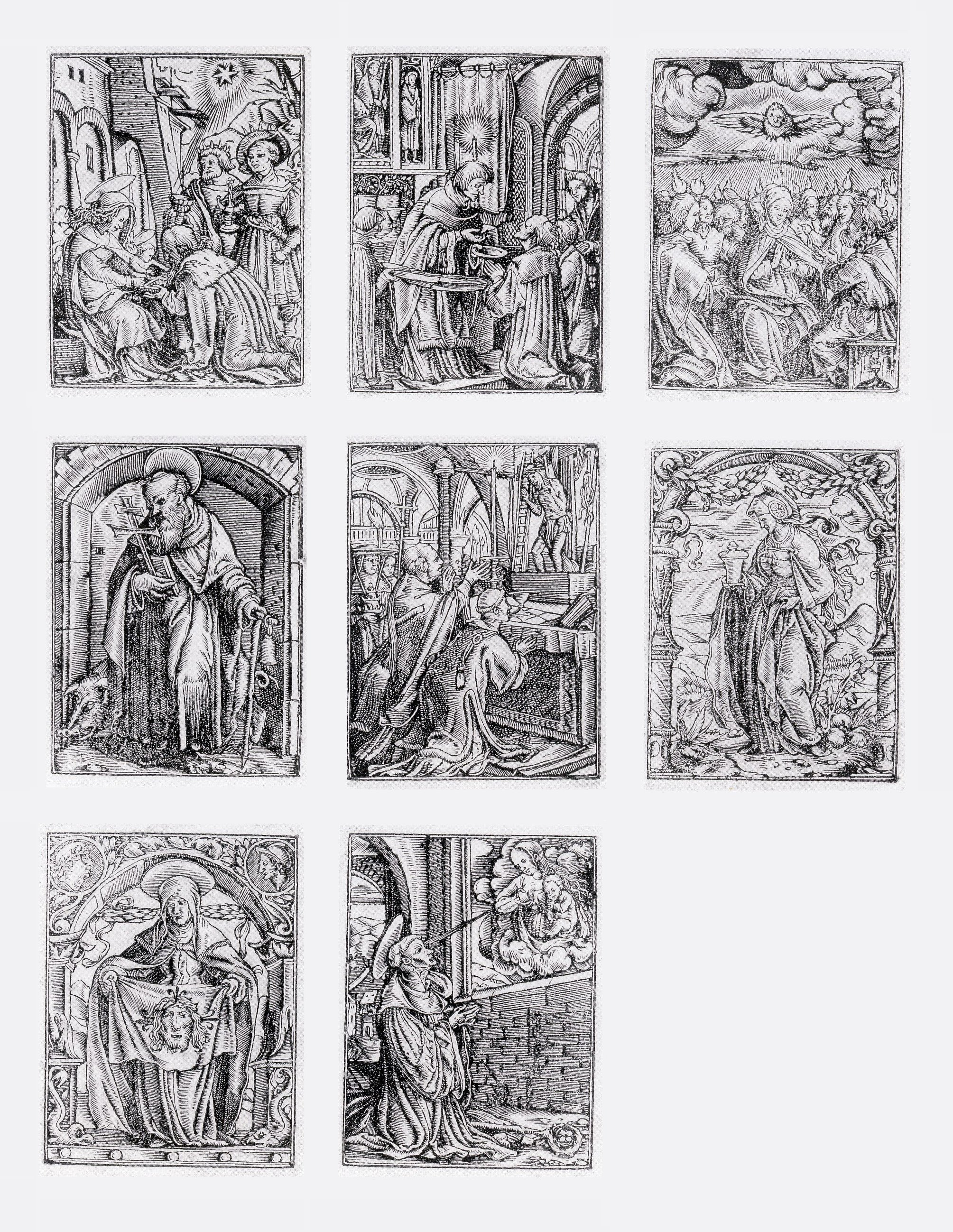 Eight Illustrations for a Hortulus Animae. Metalcuts, each image c. 5.8 × 4.2 cm, Kunstmuseum Basel. A Hortulus Animae (little garden of the soul) was an illustrated collection of prayers.